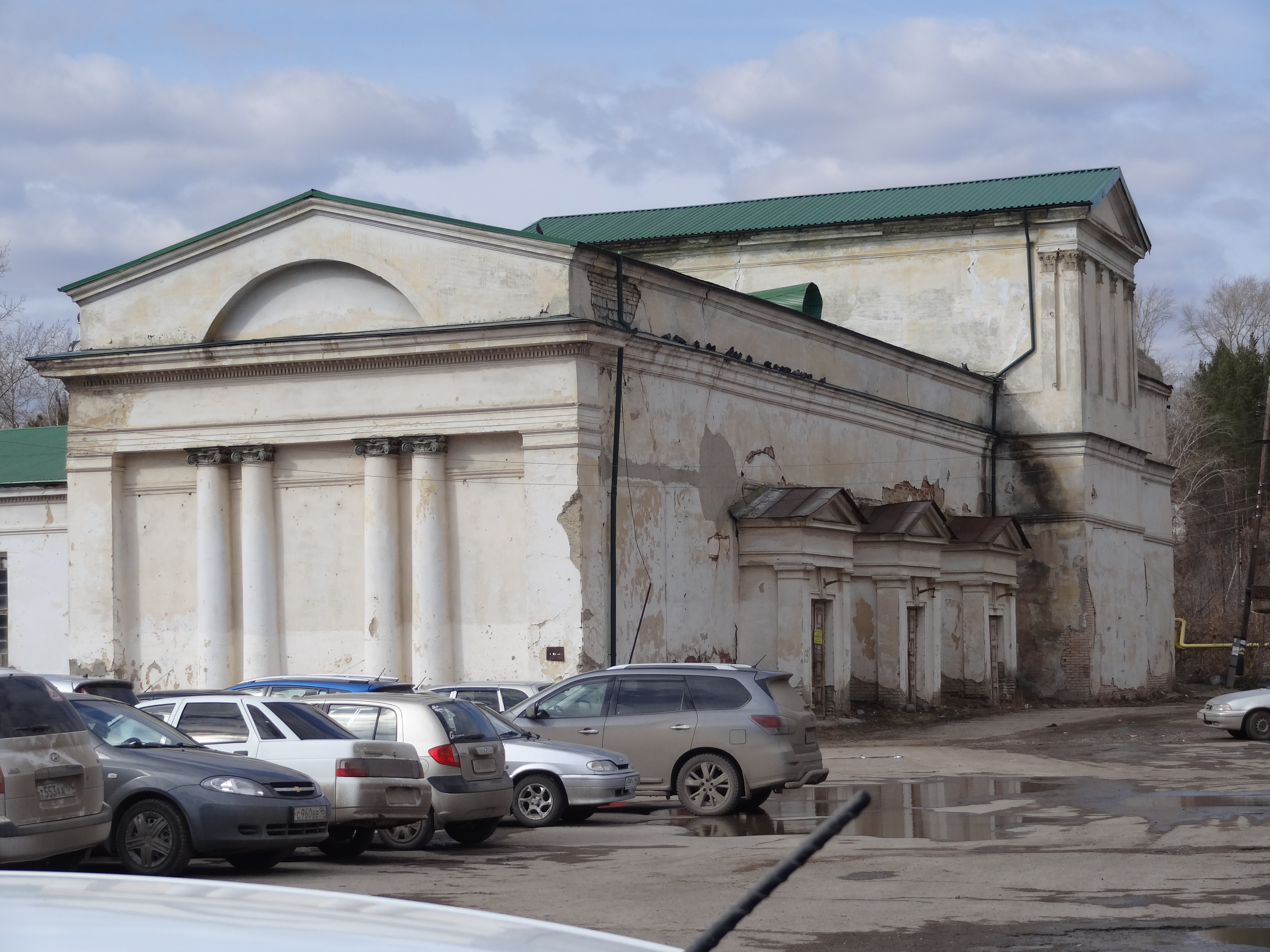 Warehouses plant in Kamensk-Uralsky, Sverdlovsk oblast, Russia Mikhail Pavlovich Malakhov (1781–1842) DescriptionRussian architectDate of birth/death17811842Location of birth/deathChernigov GovernorateYekaterinburgWork locationYekaterinburg, Kamensk-UralskyAuthority control : Q4276596